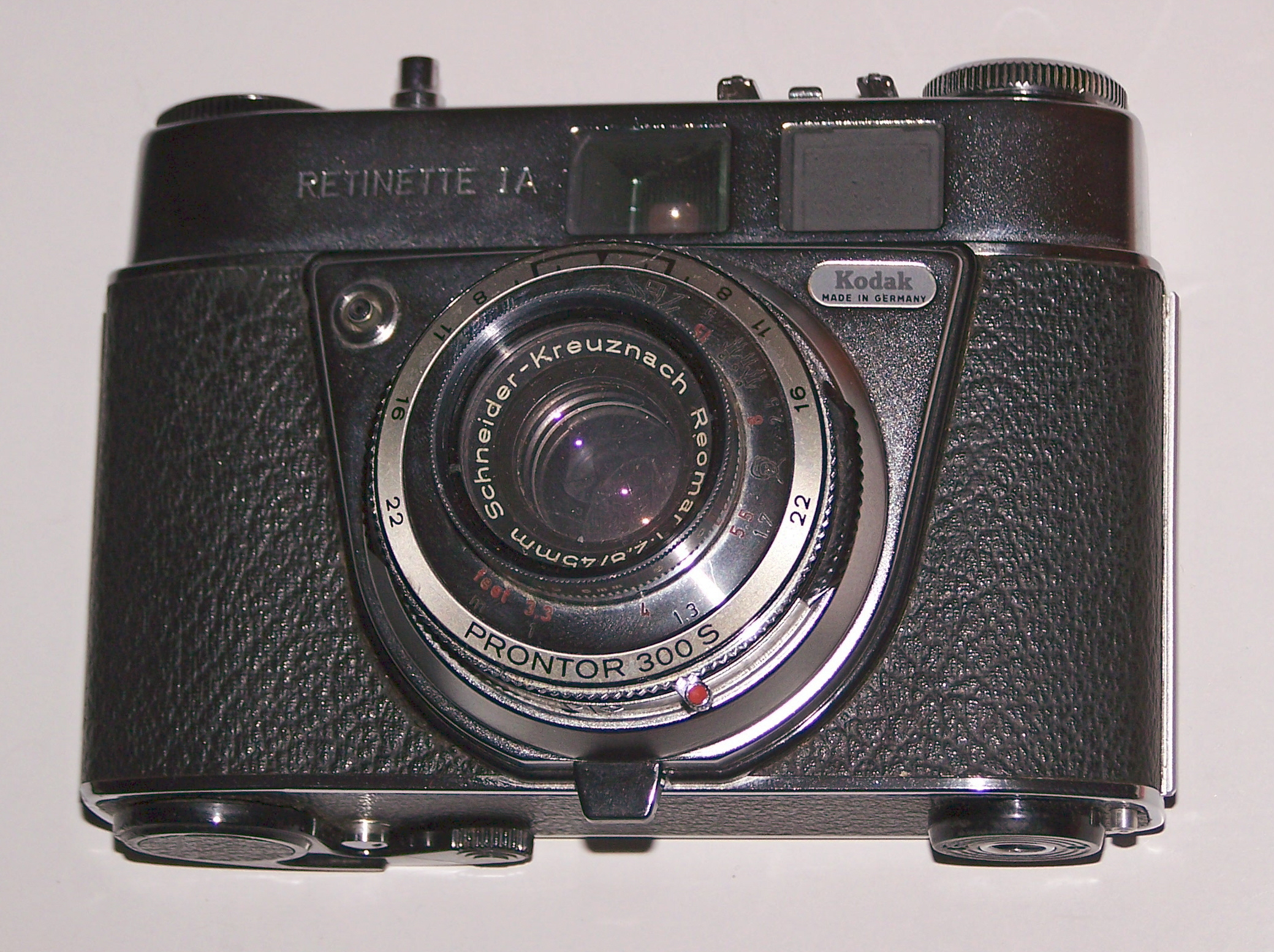 Please see filename above